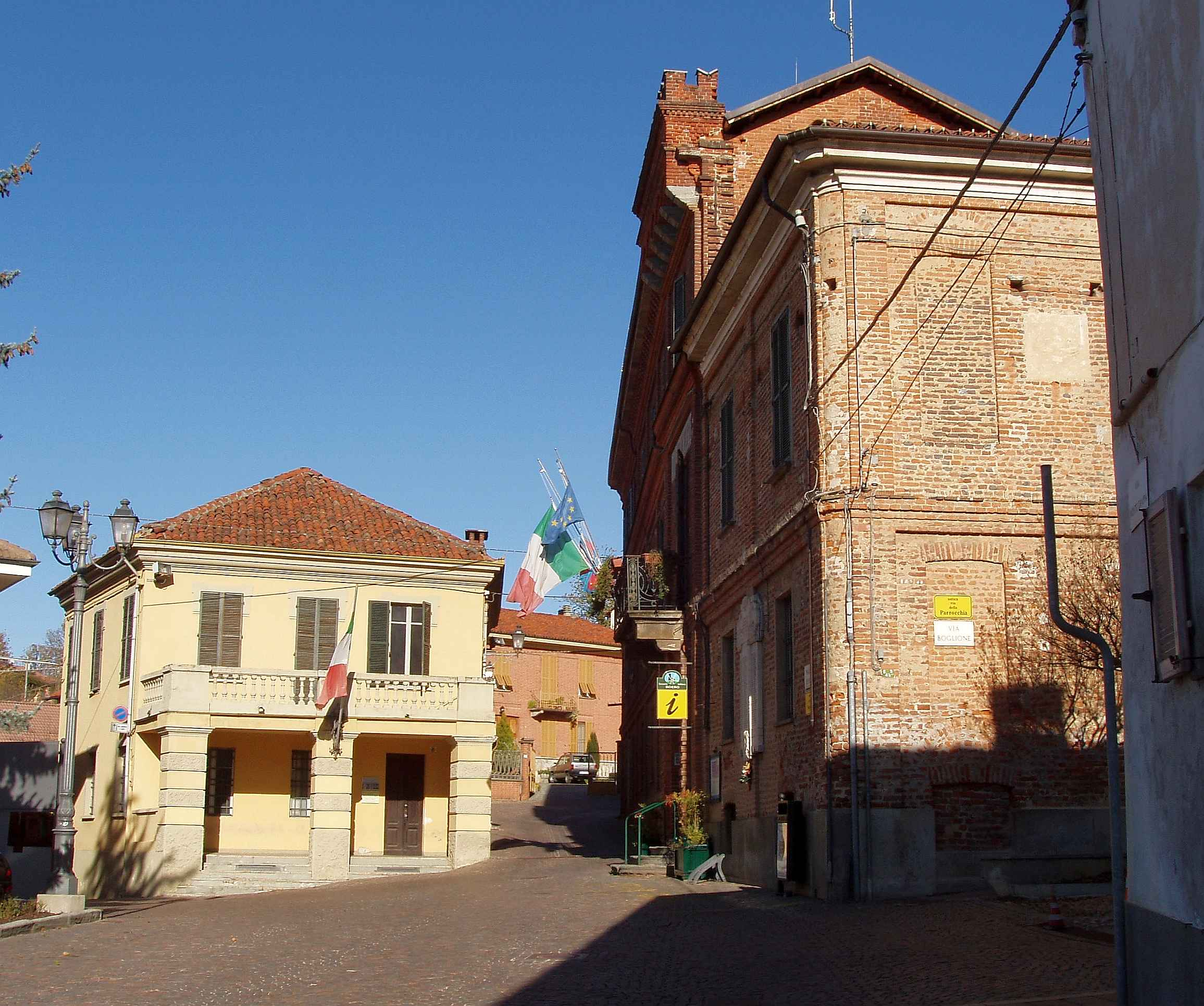 Sommariva del Bosco (CN, Italy): town hall